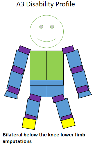 Amputee sport related classification illustration using the ISOD/IWAS classification system.